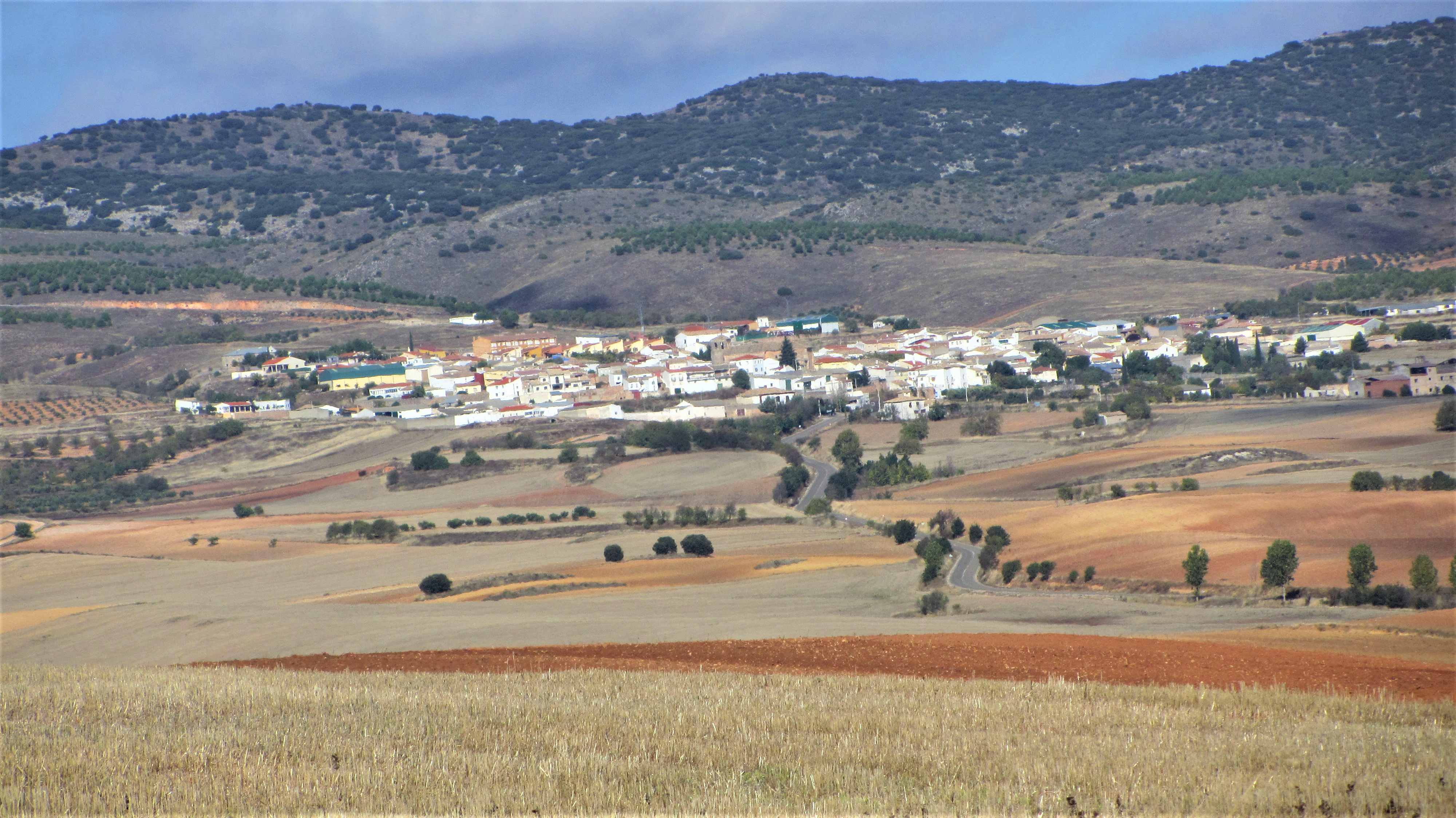 Panoramic view of Vellisca (Province of Cuenca - Spain) with the background Sierra de Altomira.